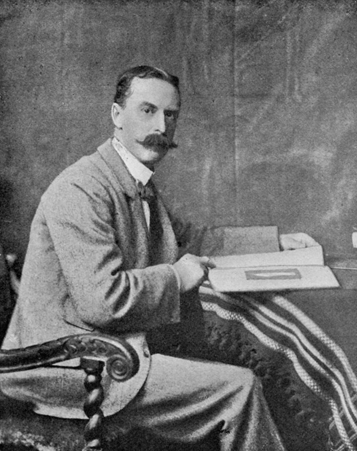 Photo of Edmund Blair Leighton in 1900, originally published in the Art Journal of the same year.